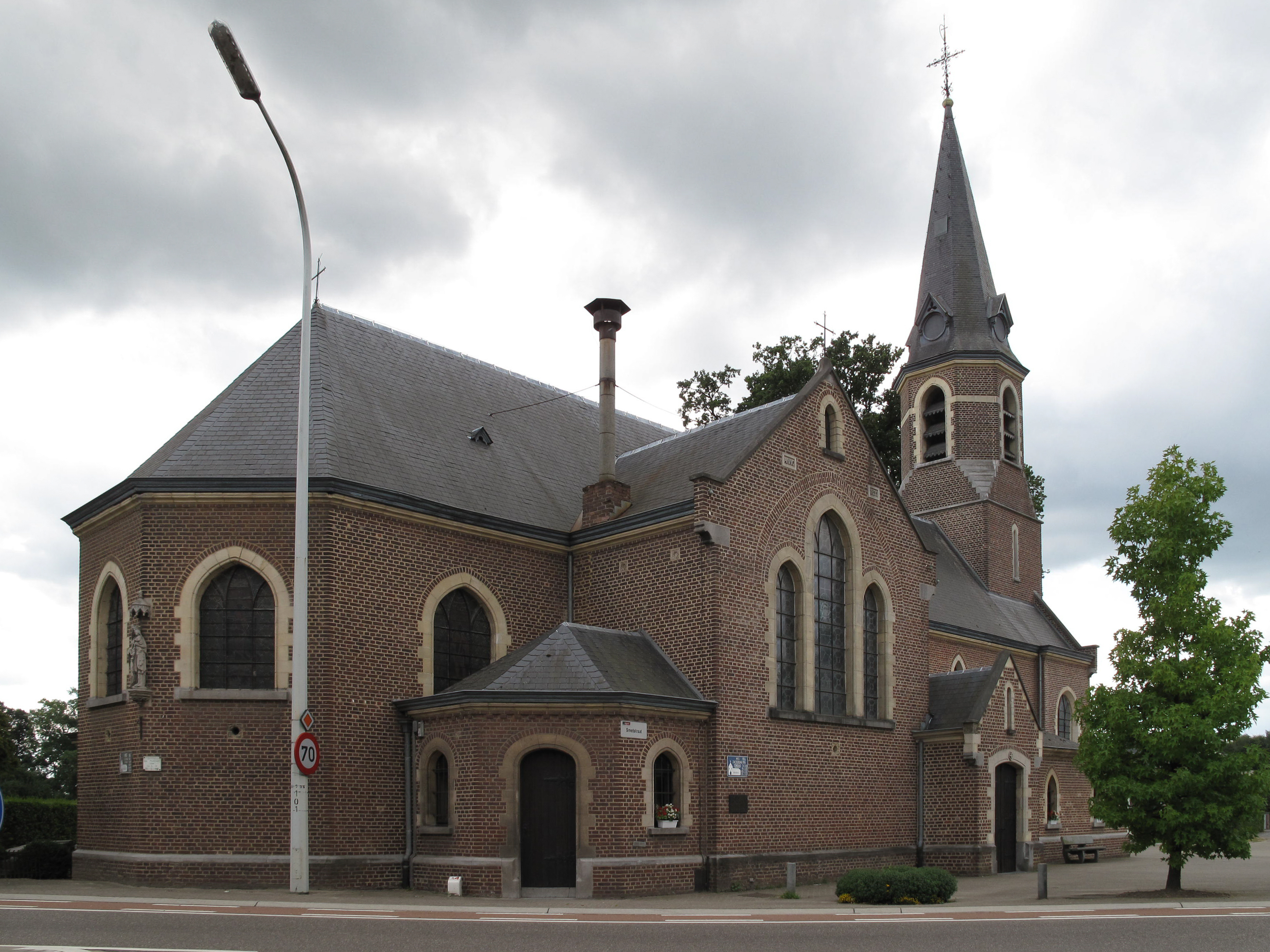 Wimmertangen, church: Sint Niklaaskerk